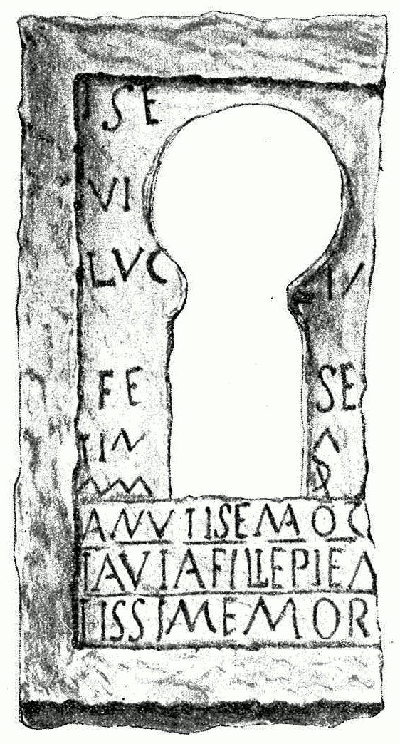 Drawing of a Roman funerary stele found in La Puebla de Arganzón / Argantzun (County of Treviño, Spain)